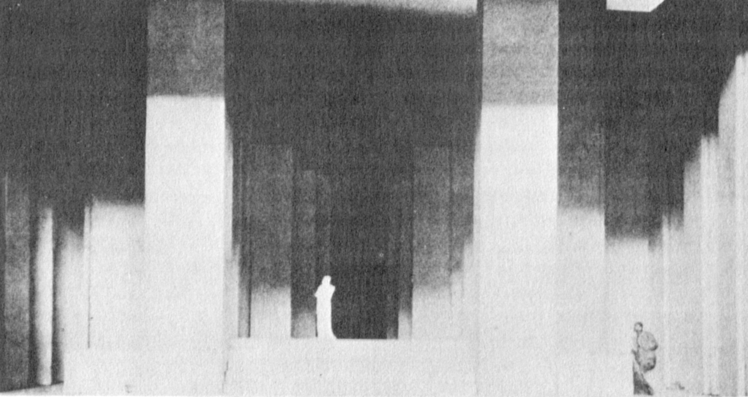 Edward Gordon Craig's model for the final scene of his production of Hamlet in 1911 at the Moscow Art Theatre